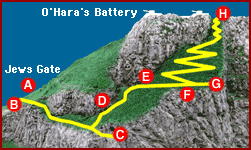 A Jews Gate B Levant Battery C Martins Cave D Goats Hair Twin Caves E Tunnel and Pumping Station F WW2 Observation Posts G View point H Top of Steps Mediterranean Steps is a path in the British Overseas Territory of Gibraltar. The path was built by the British military but is now used by tourists who want to walk to the top of the Rock of Gibraltar. The path does not go to the highest point but givess access to Lord Airey's Battery which is a former battery that fire a shell into the Straits of Gibraltar, Africa, mainland Spain or into the Mediterreanean. This picture is from a cc by sa site.